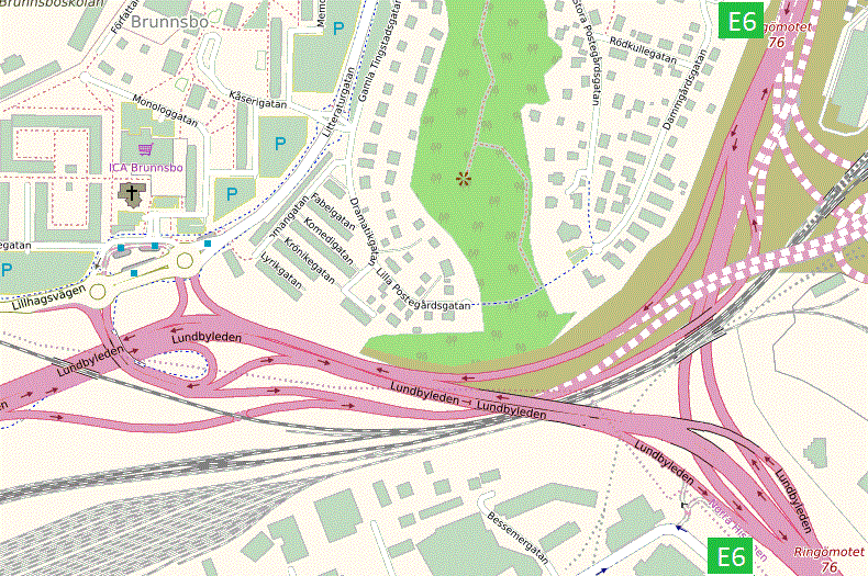 Map depicting the Ringömotet road crossing in Göteborg, Sweden, intended to illustrate Wikipedia article about the crossing.